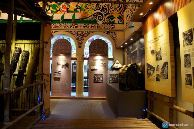 The interior view of Longhouse Cultural Gallery of Sarawak State Museum.